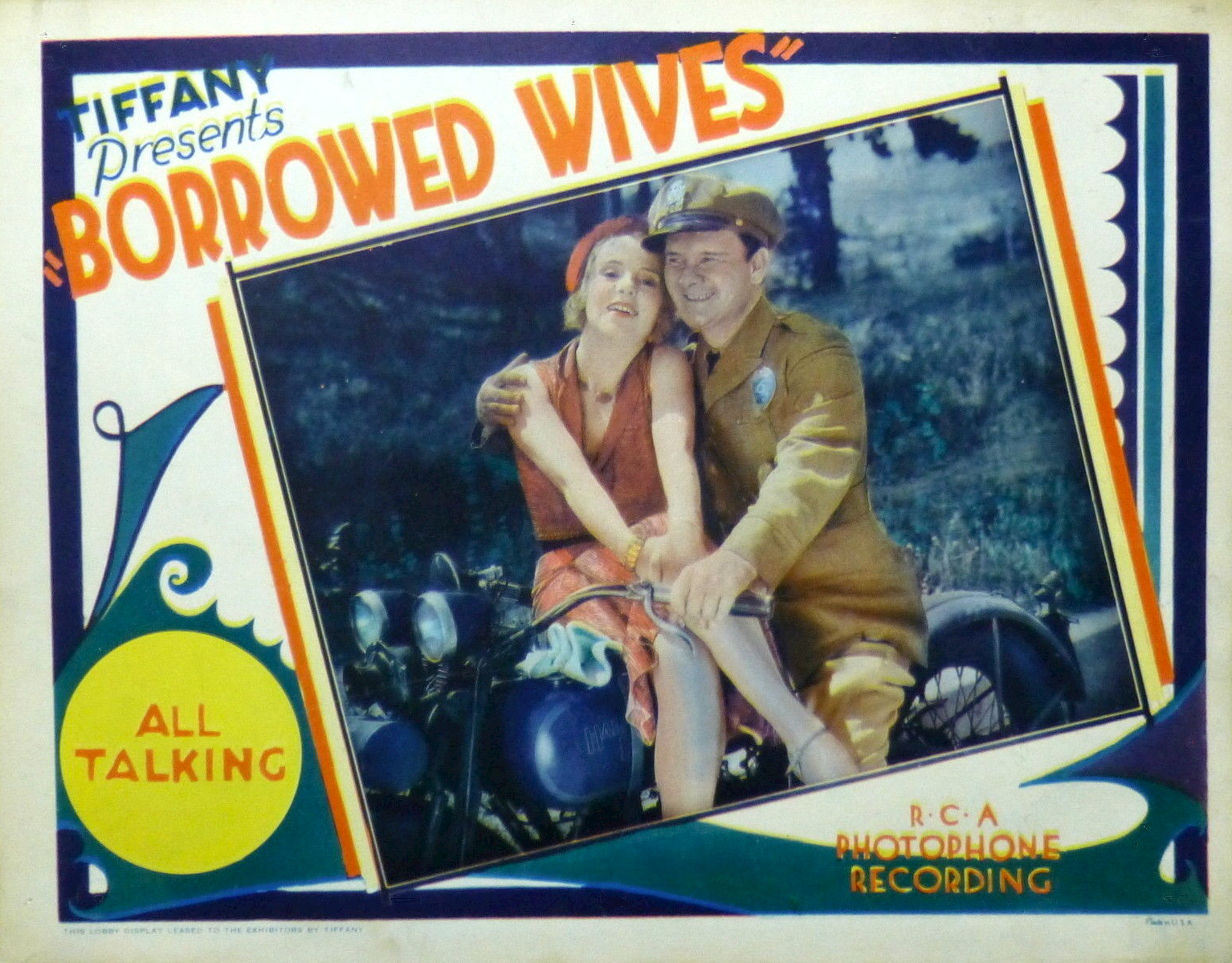 Lobby card for the American film Borrowed Wives (1930) with Vera Reynolds and Rex Lease. The item has no copyright markings on it as can be seen in the links above. At bottom left is This lobby display leased to the distributor by Tiffany Studios. At bottom right is Made in USA.